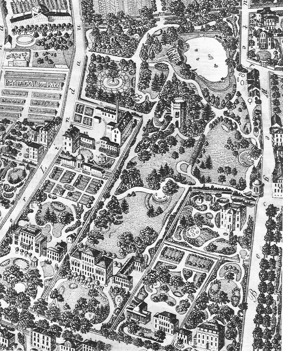 Frankfurt/M., Germany: The Rothschild palais on Bockenheimer Landstraße in the Westend, 1864. Detail of a pictorial town map by Friedrich Wilhelm Delkeskamp (1794–1872)